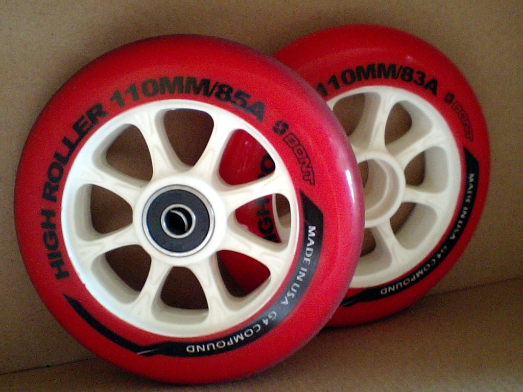 Two inlineskates wheels; Bont High Roller G4 110mm 85A, and 83A.